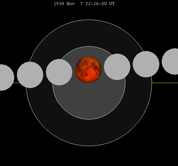 Lunar eclipse chart of moon's path through the earth's shadow. thumb